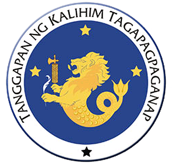 Official Seal of the Executive Secretary of the Philippines.